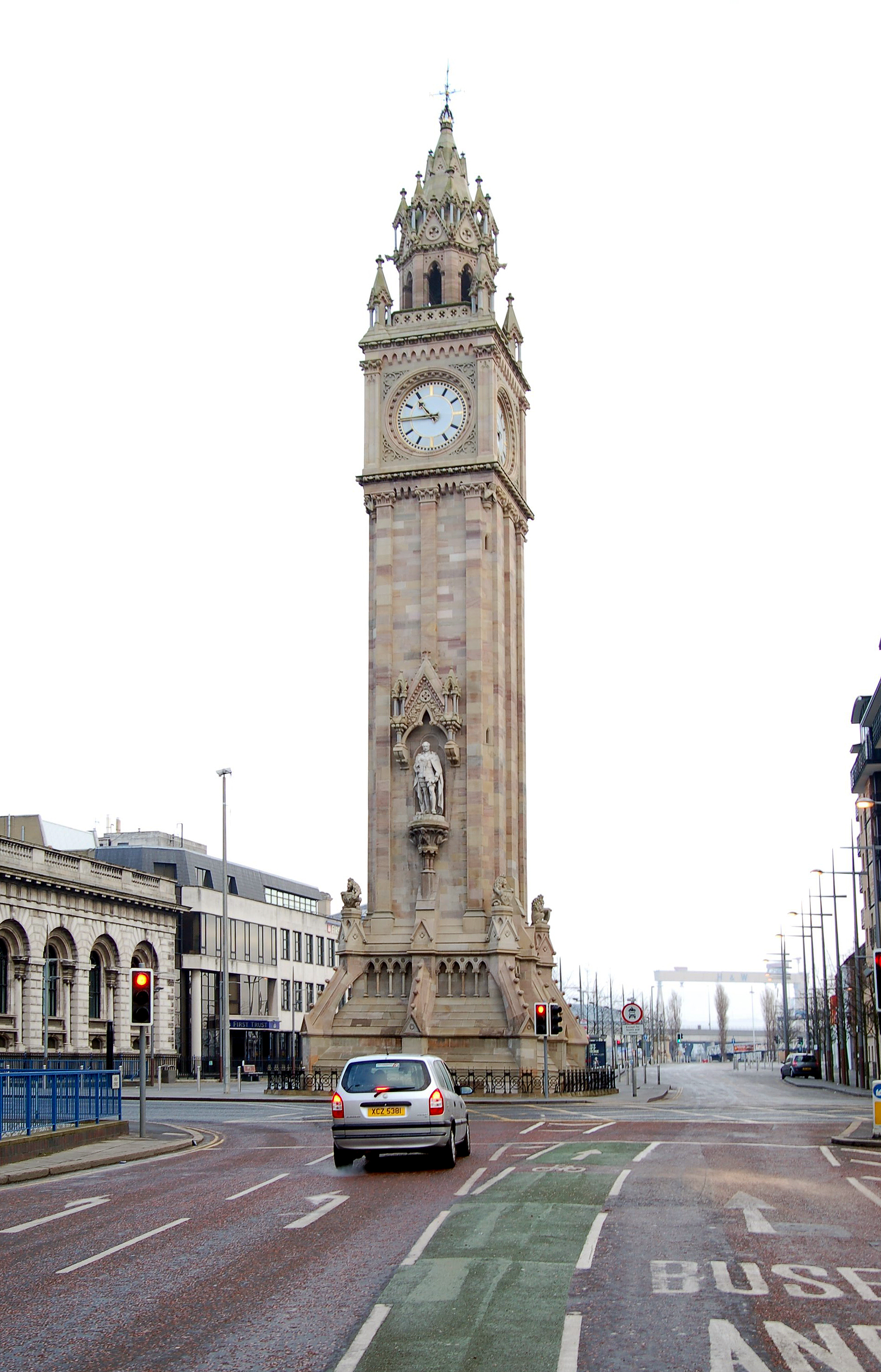 (C) Gerry Lynch, 2005. The leaning Albert Clock is one of Belfast's landmarks.